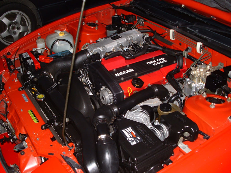 CA18DET